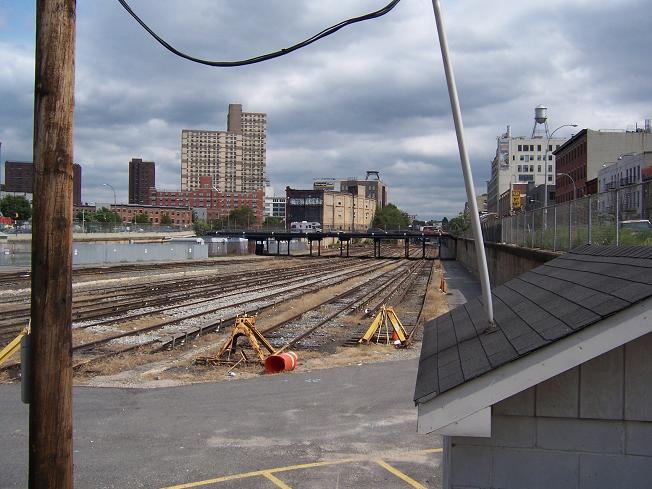 I took this photograph myself on 9/10/06. I release it to the and Wikipedia. This is not the "Atlantic Yards" site. This is the Vanderbilt Rail Yard, which comprise about 40% of the proposed site. The rest are private homes, private businesses, private property, city property and city streets. I took this photograph myself on 9/10/06. I release it to the and Wikipedia. This is not the "Atlantic Yards" site. This is the Vanderbilt Rail Yard, which comprise about 40% of the proposed site. The rest are private homes, private businesses, private property, city property and city streets.